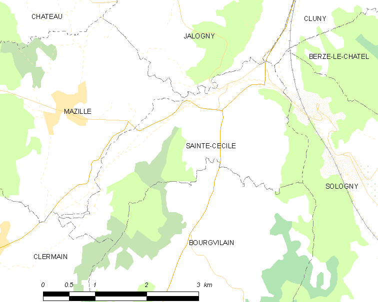 Map of French municipality